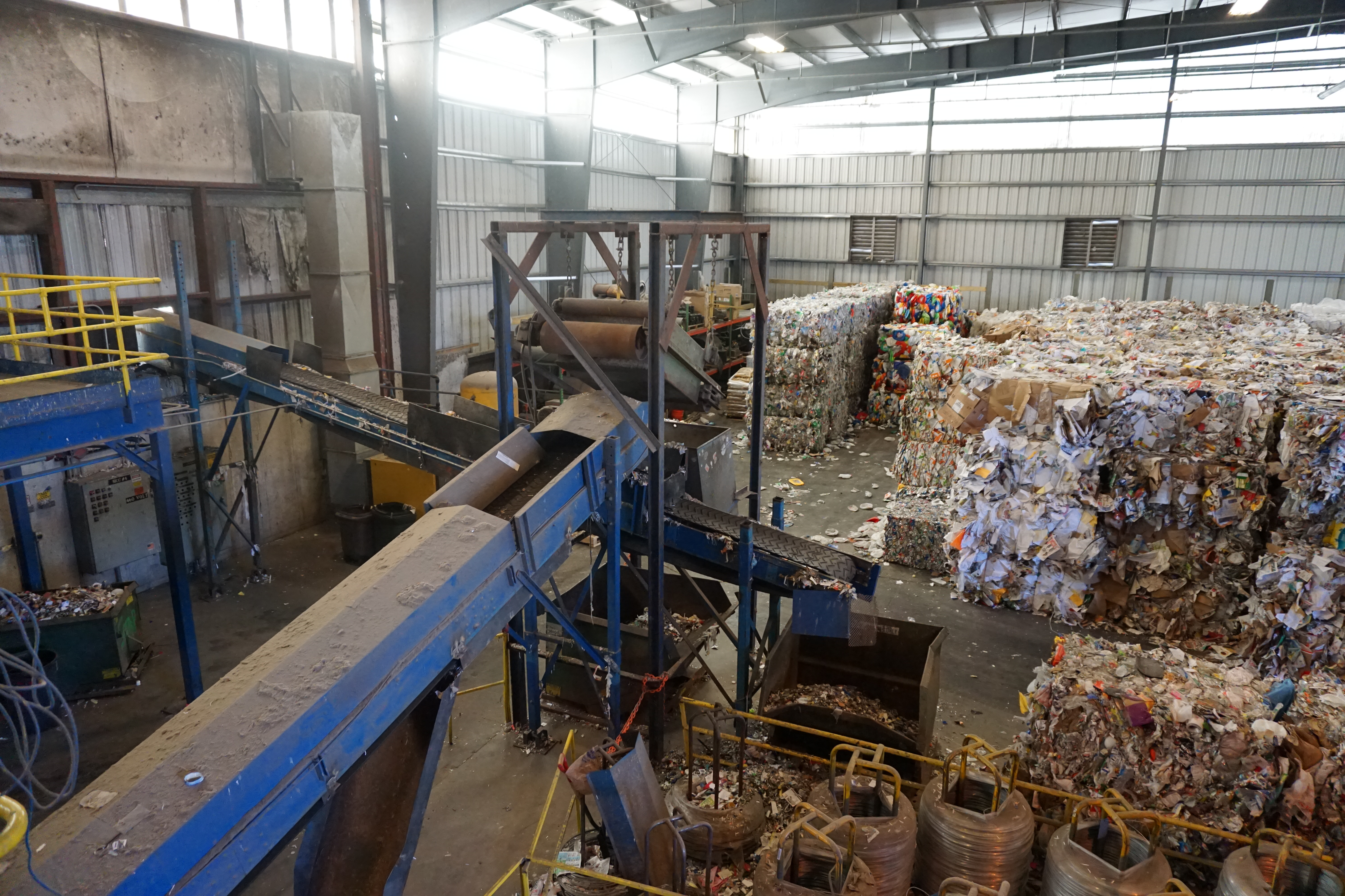 The interior of the Materials Recovery Facility in Ann Arbor, Michigan (United States).